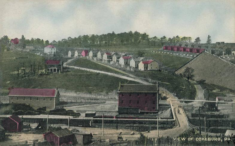 View of Cokeburg, Pennsylvania